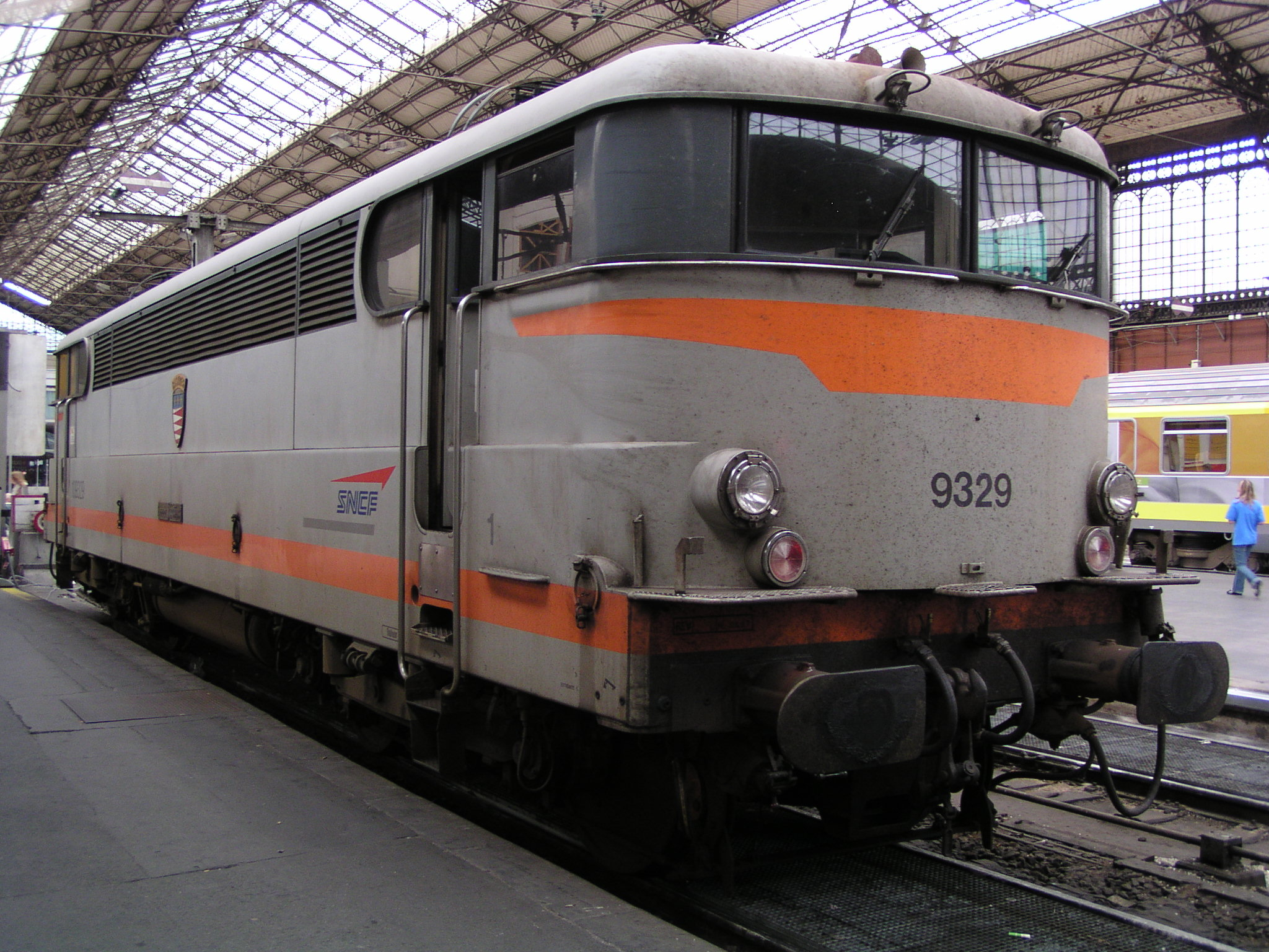 SNCF Class BB 9300, no. 9329 "Castres" at Paris Gare d'Austerlitz on 5th September 2005. Image by Phil Scott (Our Phellap 21:20, 6 September 2005 (UTC))